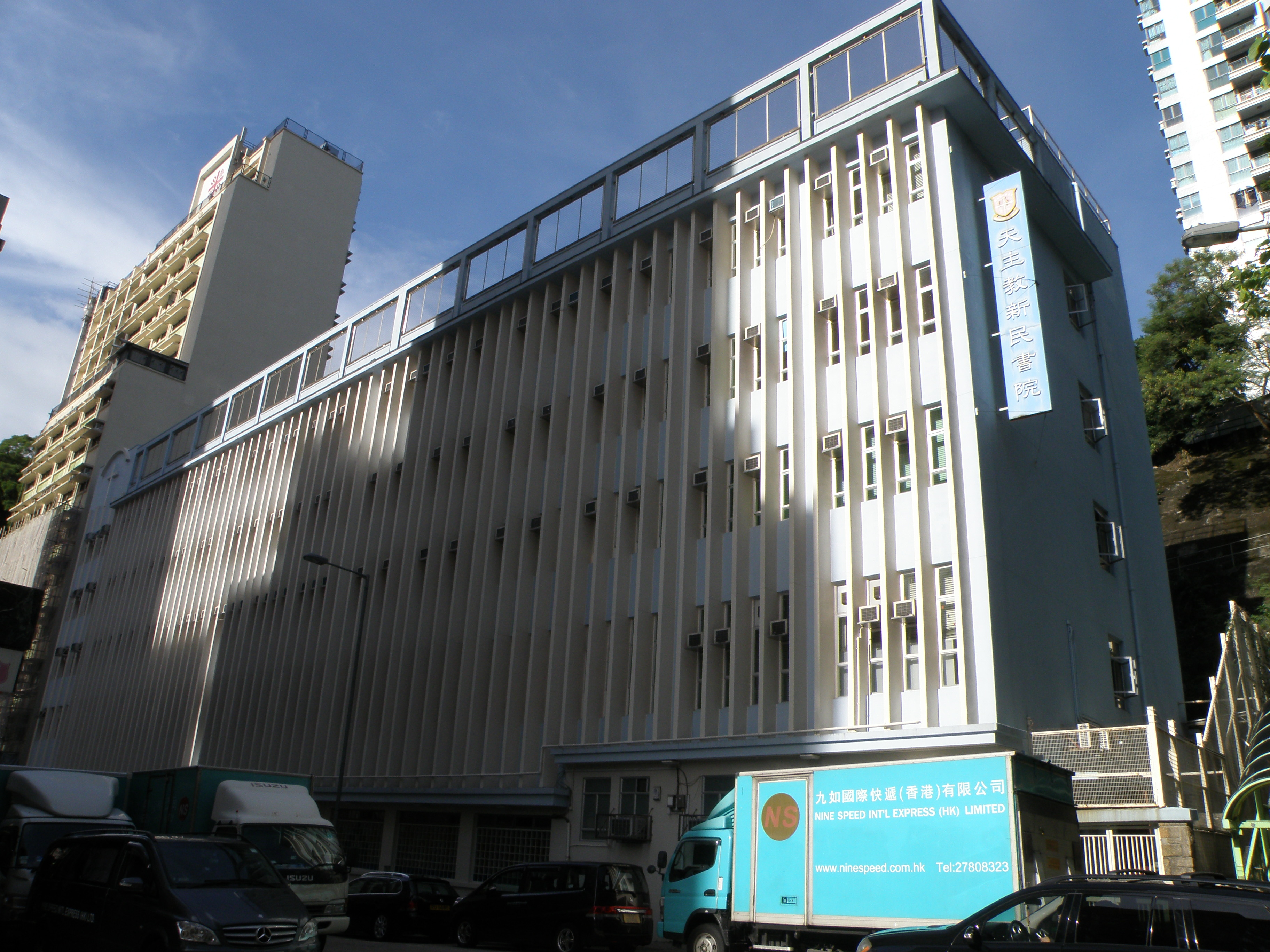 Newman Catholic College in Yau Ma Tei, Hong Kong.